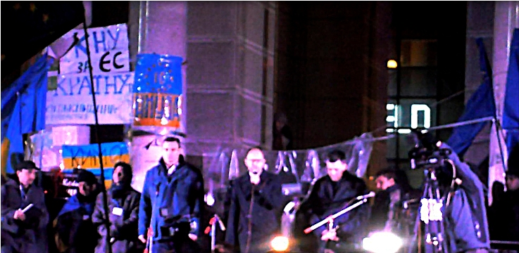 Leaders of opposition parties — Vitaliy Klitschko, Oleh Tyagnibok and Arseniy Yatsenyuk — in EuroMaidan, 29.11.2013